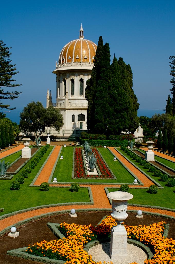 The Shrine of the Báb, in the city of Haifa, Israel.